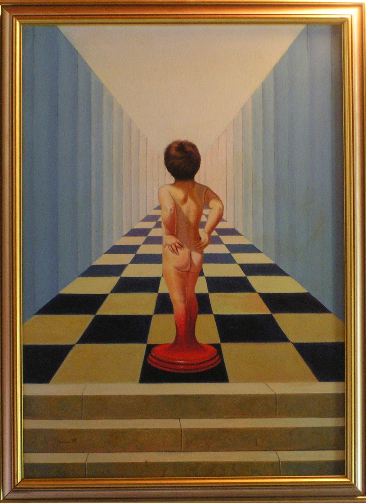 Work of the Italian painter William Girometti, title: "Close examination of unbiased truth", 1979, oil on canvas, cm. 50x70 - owned by his daughter.